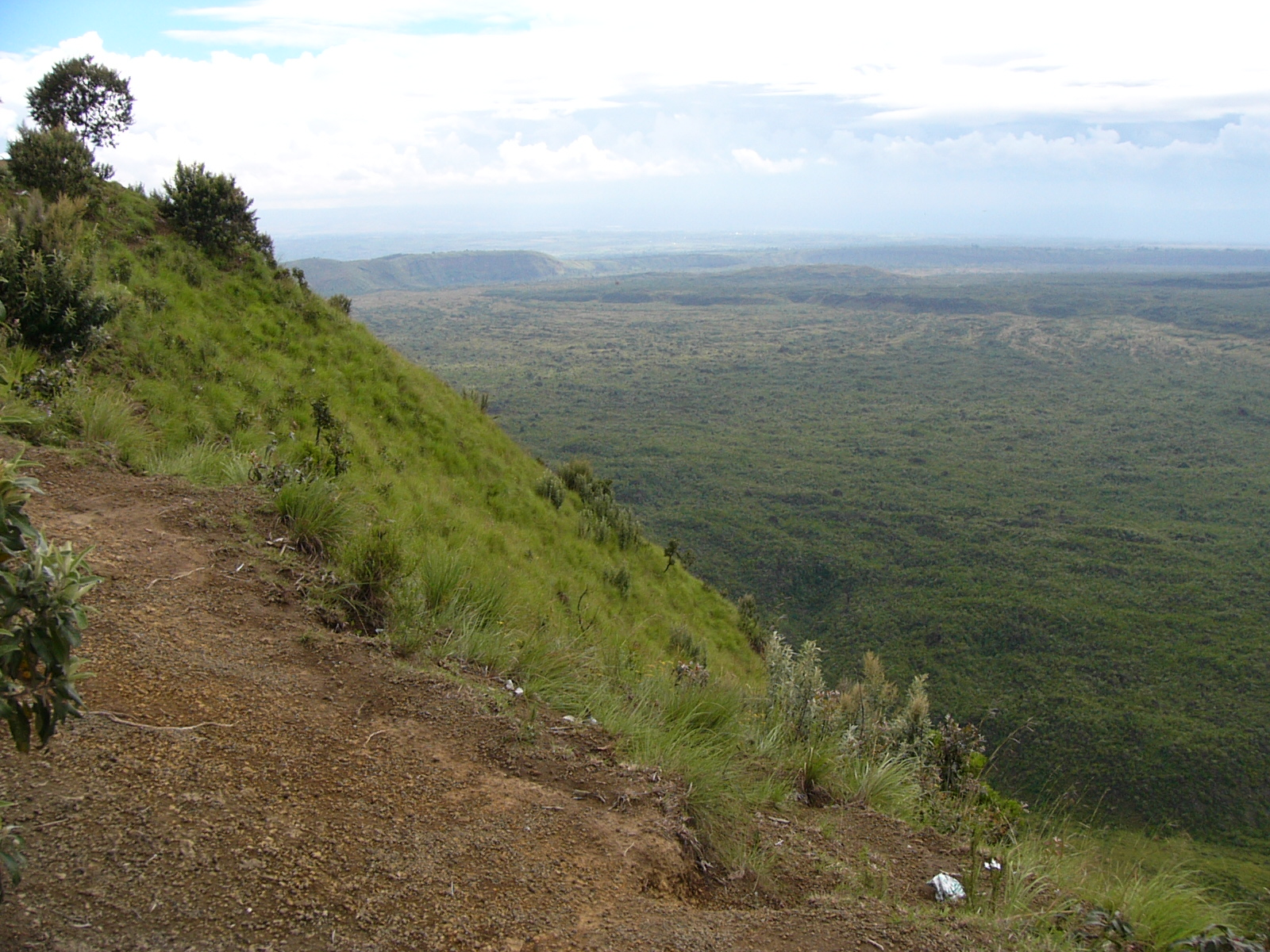 Menengai Crater, Kenya - view from the caldera edge. More of the edge is visible near the horizon.